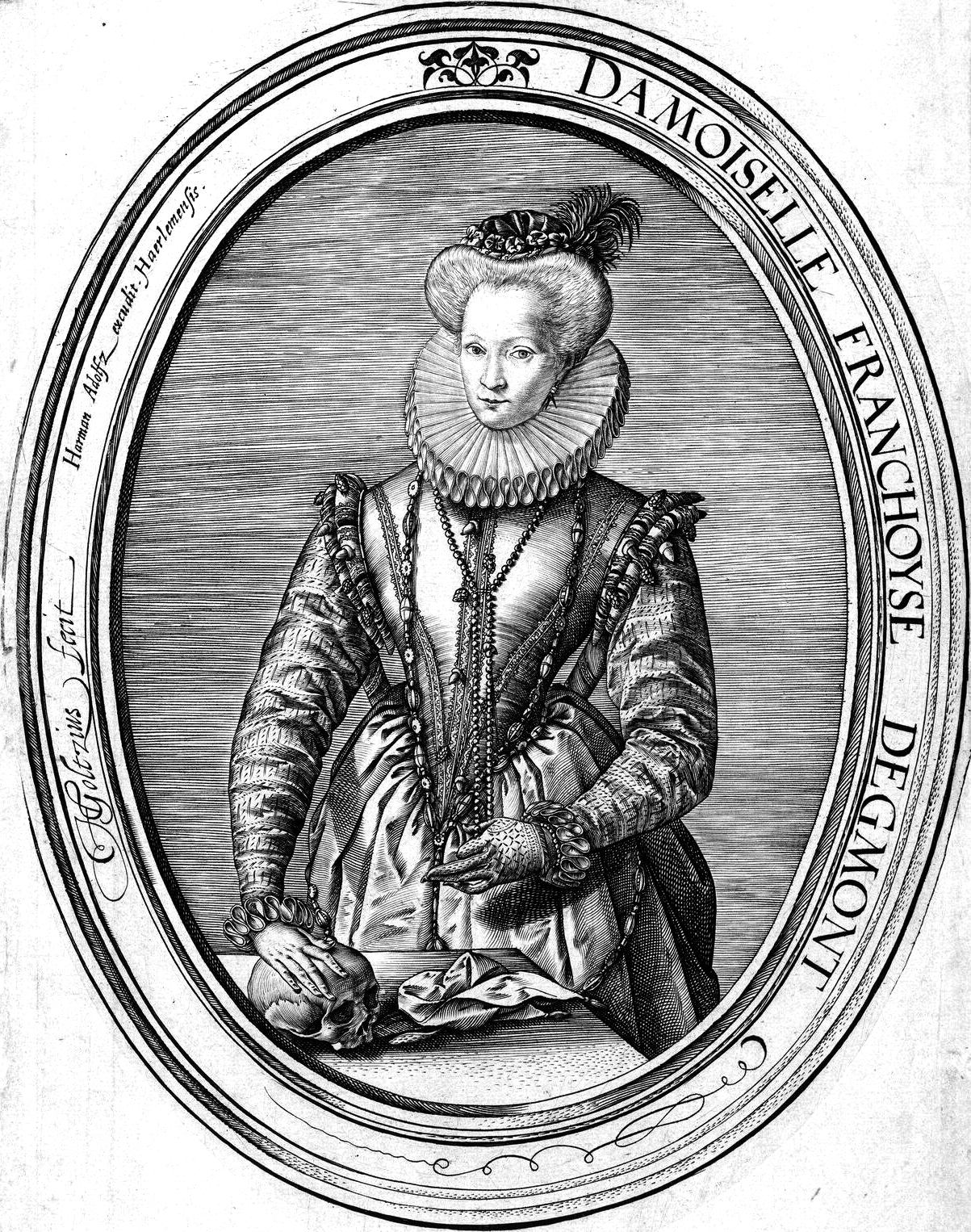 Françoise van Egmond (died 1589) engraving 18 x 14.1 cm 1580 inscribed l.: HGoltzius fecit Herman Adolfz excudit. Haerlemensis. inscribed r.: DAMOISELLE FRANCHOYSE DEGMONT (which means "miss Françoise of Egmont") Françoise van Egmont was the third of the twelve children from Lamoral van Egmont and Sabine von Simmern. She died unmarried in The Hague in 1589. See Allgemeine Encyklopädie der Wissenschaften und Künste, volume "1st section, 43th part", Leipzig, 1838, p.267 (read online) & see Koninklijke Bibliotheek, 133 M 95.